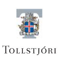 Logo of Icelandic Customs Directorate